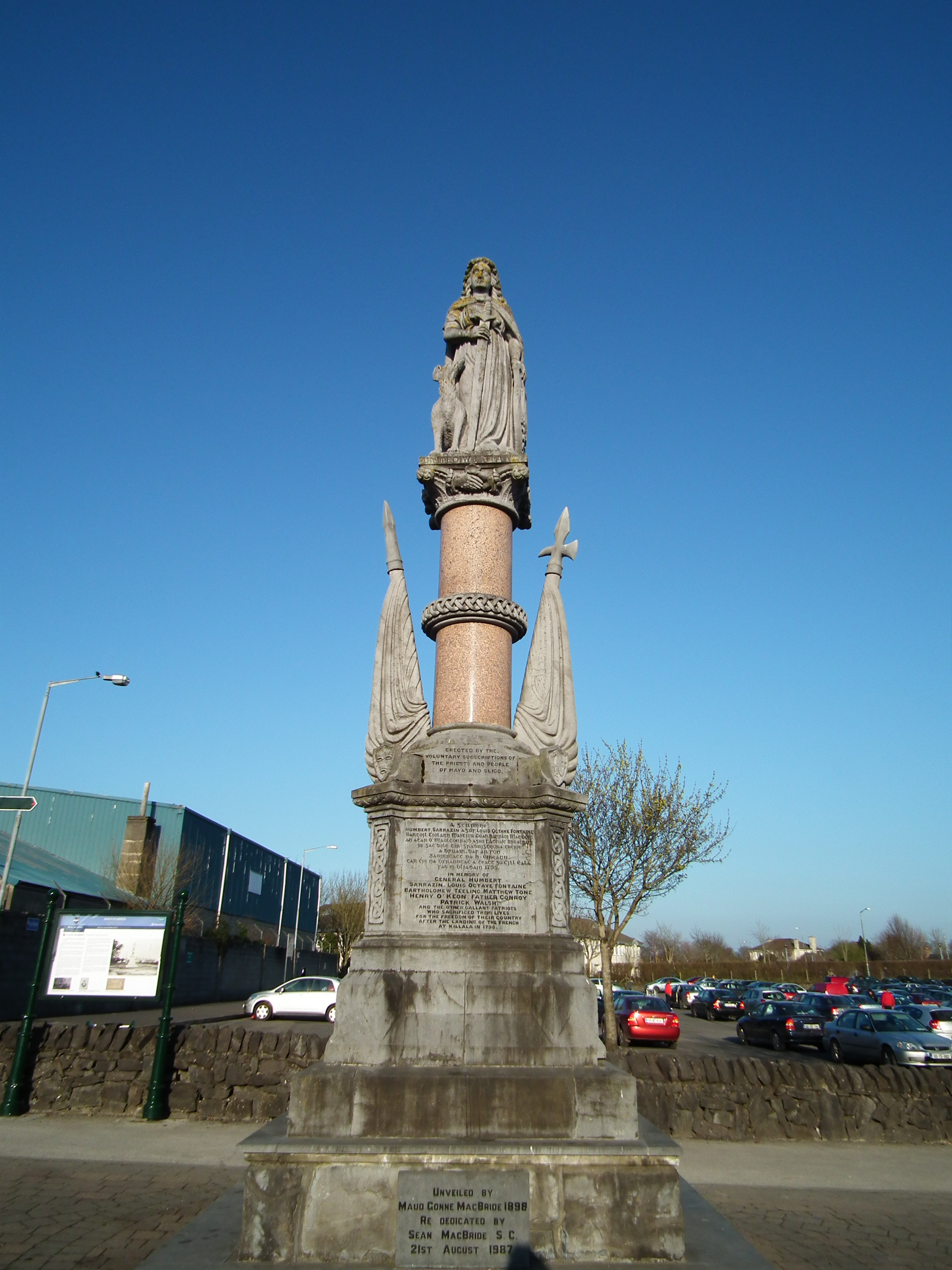 Pomnik Generała Humberta w Ballinie, Irlandia.